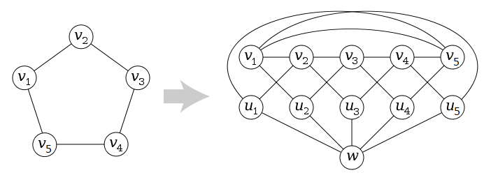 Mycielskian construction applied to a 5-cycle graph, producing the Grötzsch graph with 11 vertices and 20 edges, the smallest triangle-free 4-chromatic graph.